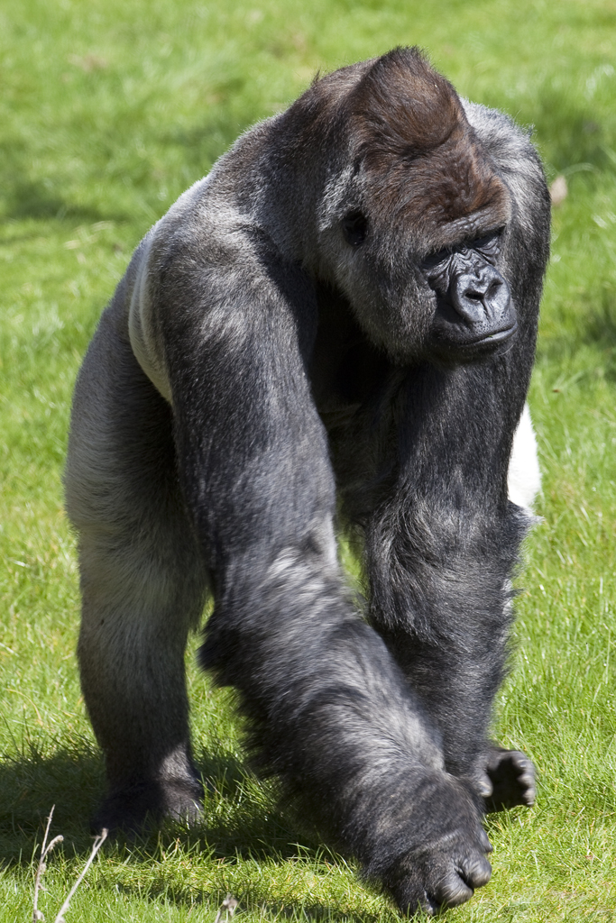 Bokito - World's Most Famous Gorilla